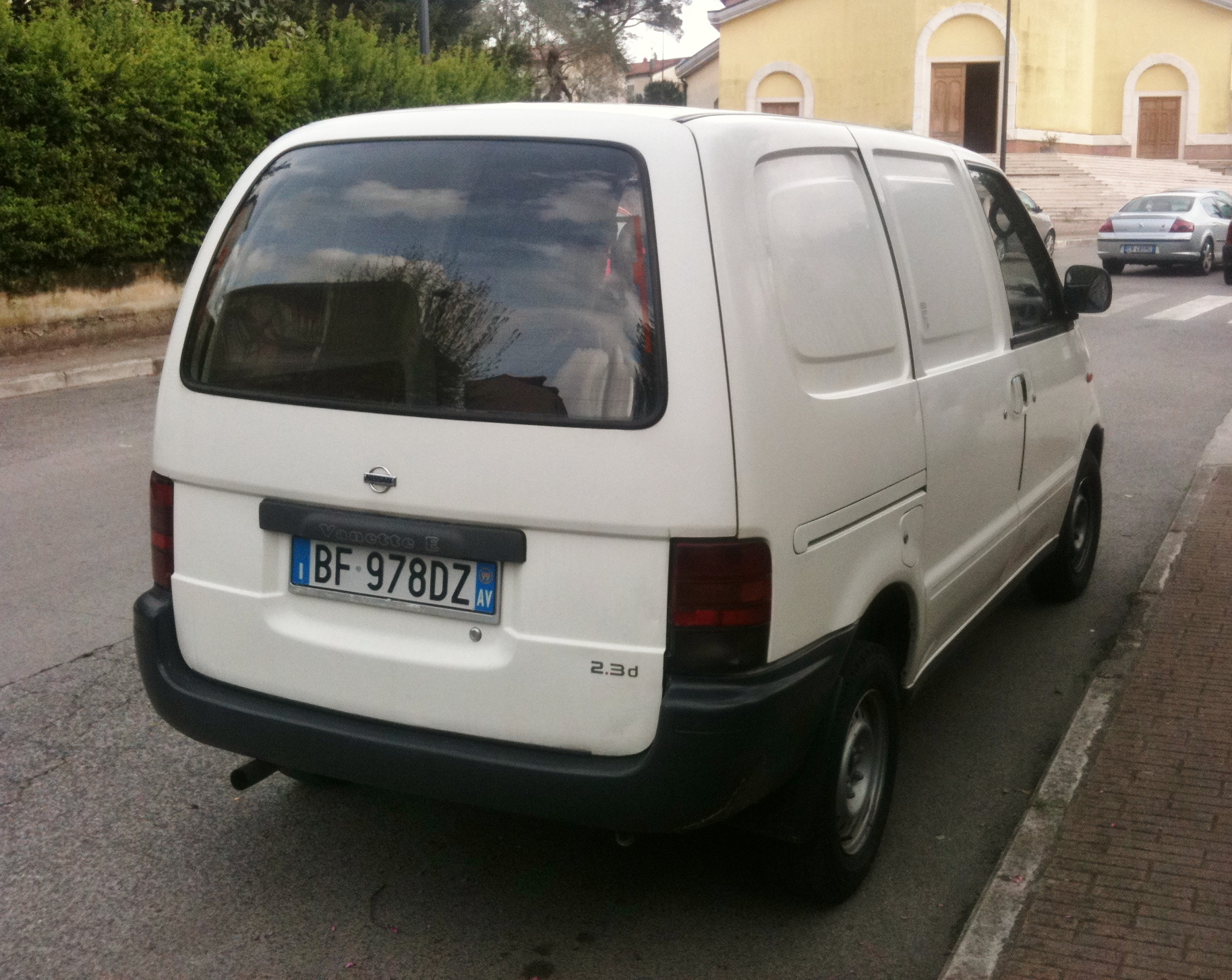 Nissan Vanette E 2.3d rear in Avellino